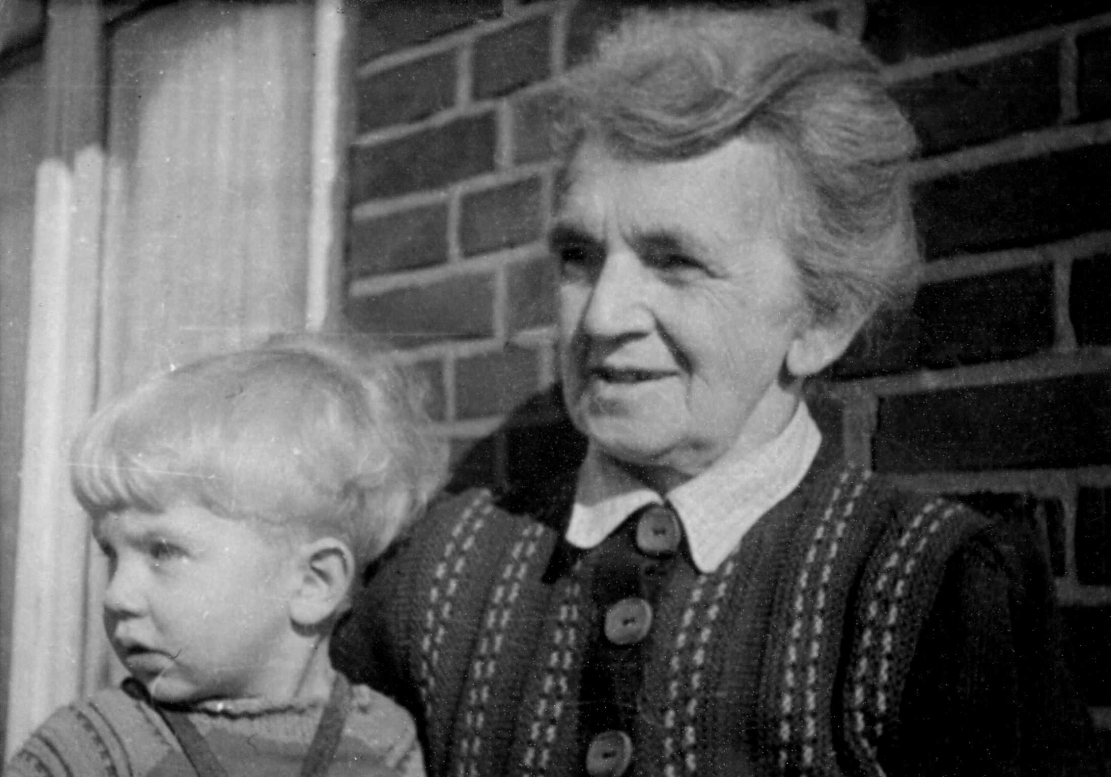 Anna Strohsahl, SPD politician in Cuxhaven (Germany) 1920-1933, in 1947, with grandson Götz Strömsdörfer